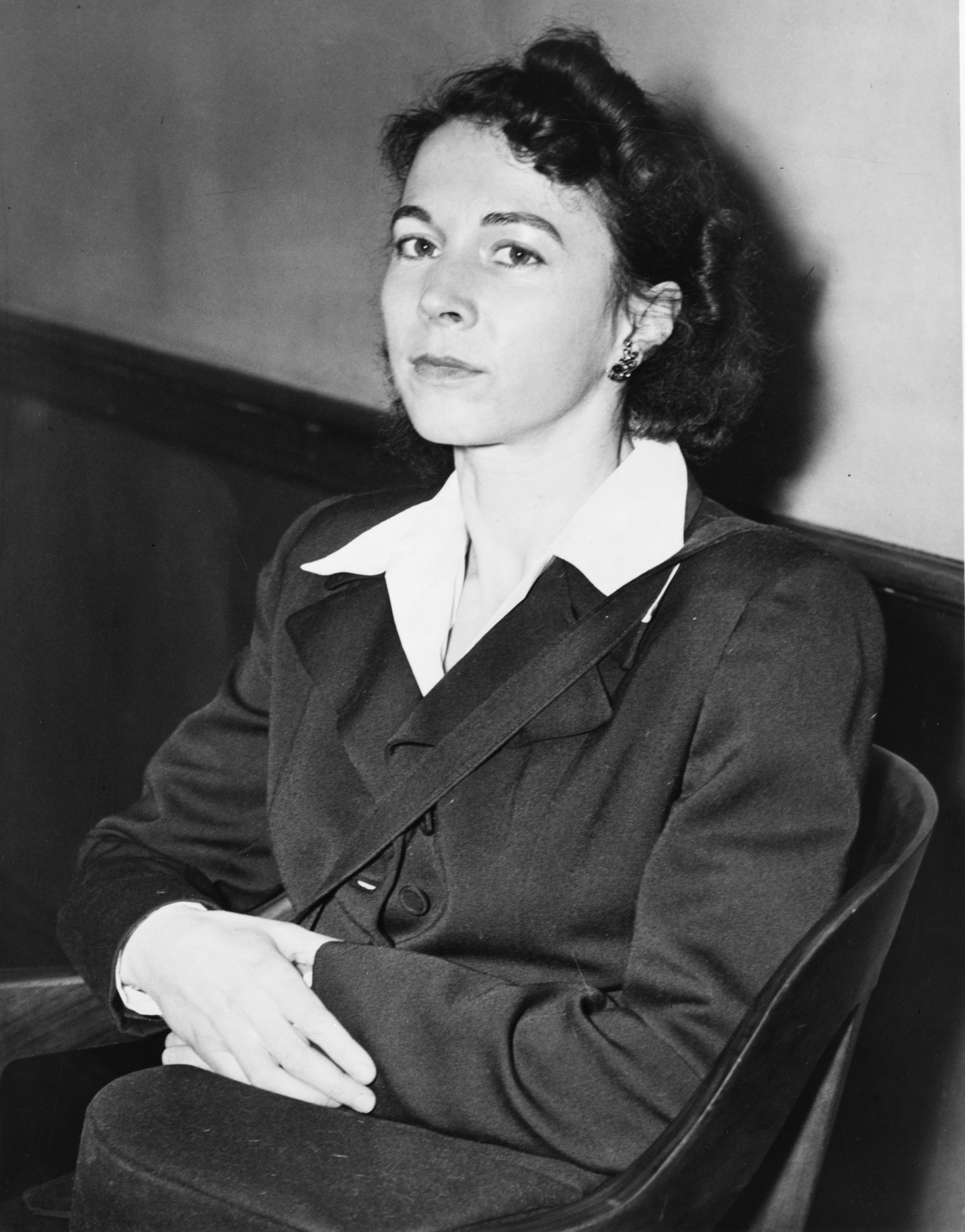 Mrs. William W. Remington, half-length portrait, seated, facing left, in Federal Court